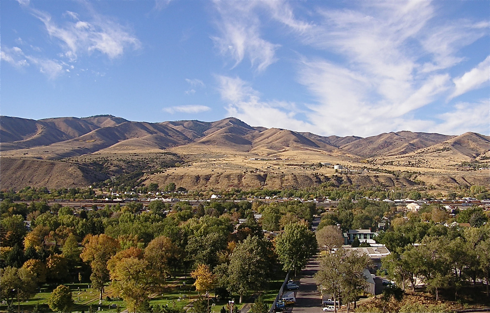 Western Pocatello, Idaho seen from Red Hill, October 2009